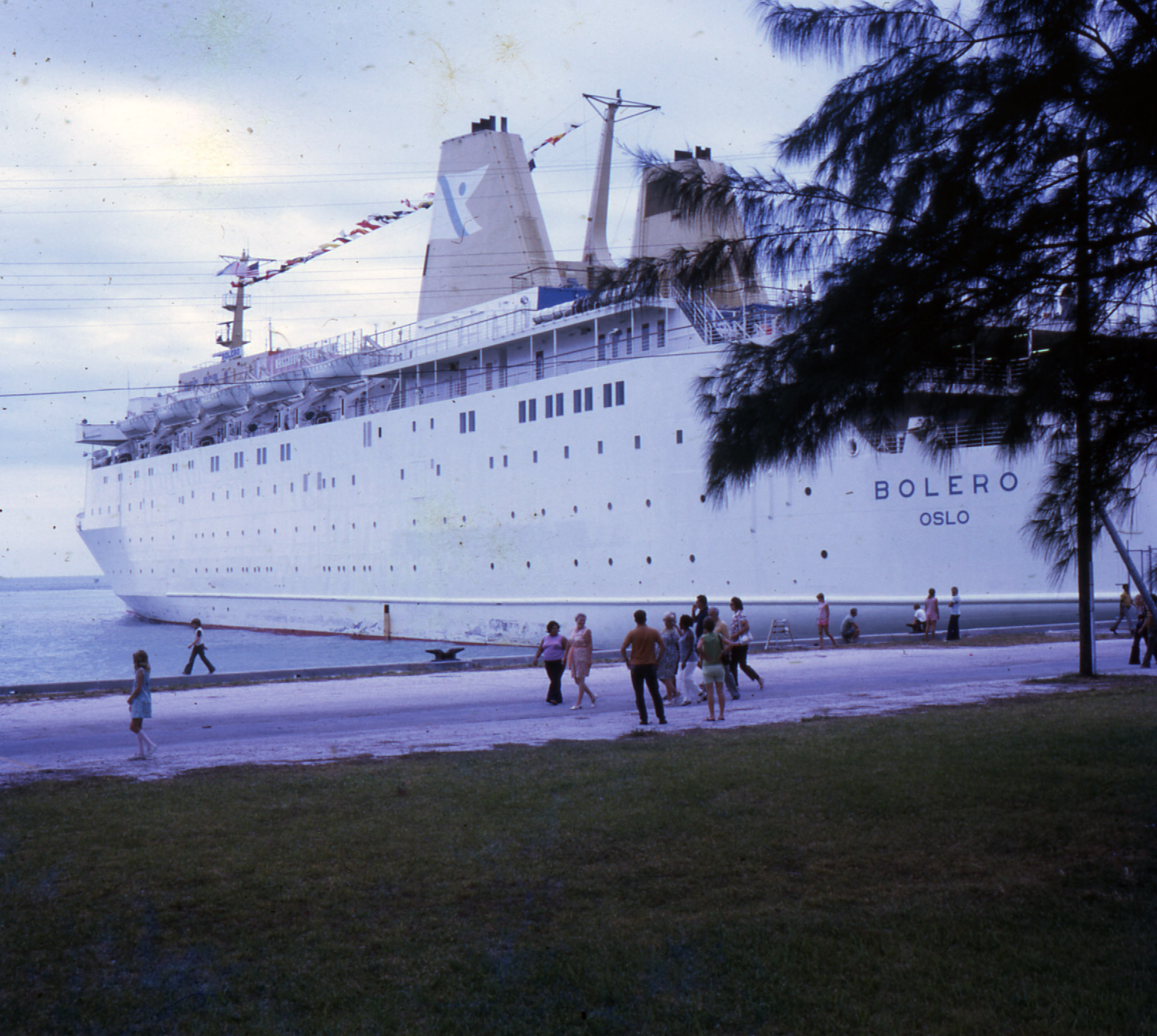 Cruise ship Bolero at Trumbo Point late 1970s. Photo by Raymond L. Blazevic.